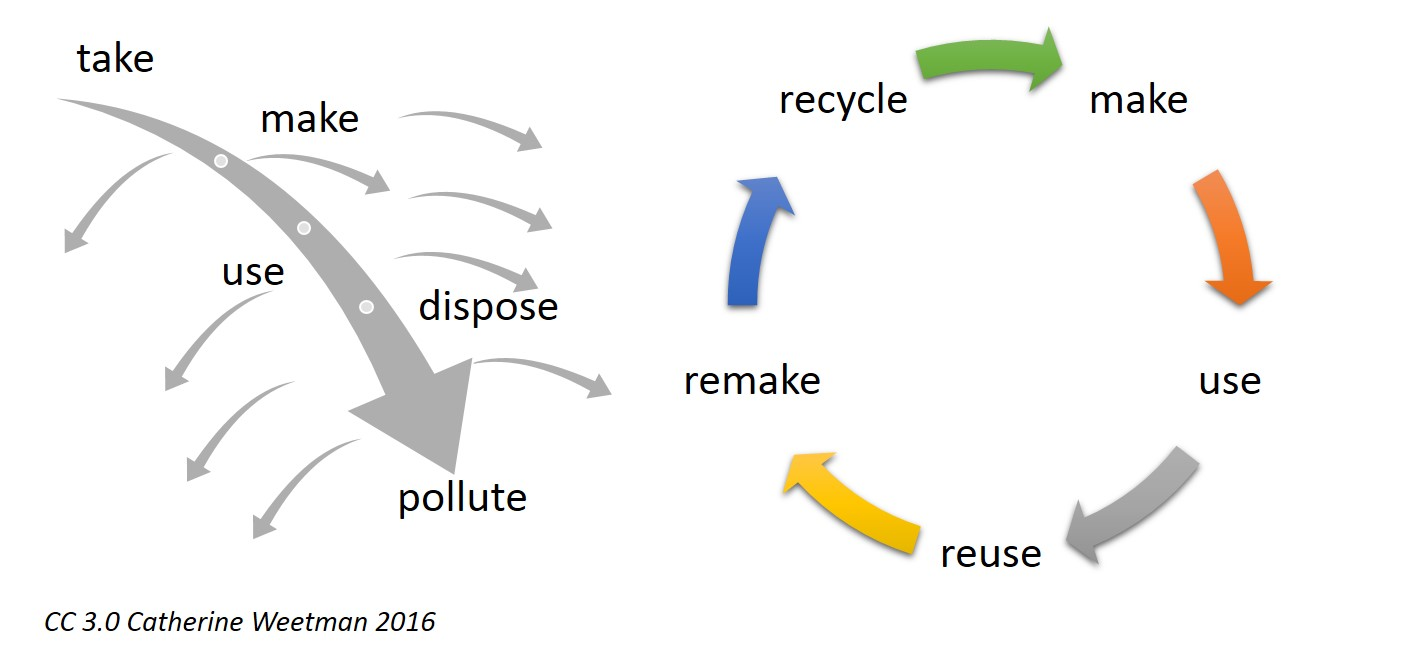 A simple diagram to contrast the 'take, make, waste' linear approach to the circular economy